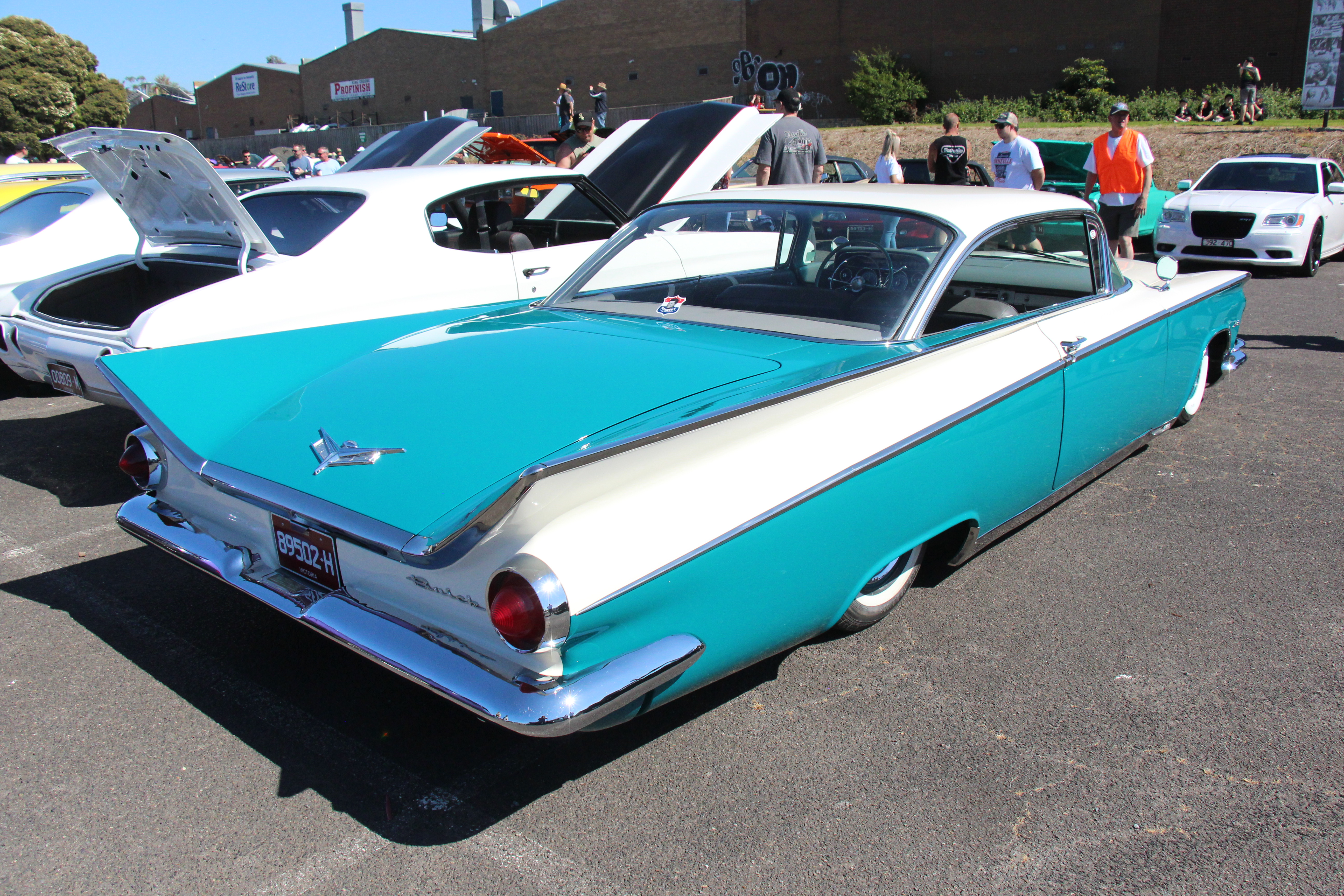 The Buick Motor Company was formed in 1903, it was General Motors' upmarket car, second only to Cadillac. Buicks got all new styling for 1959, the new shape featured wrap around windshield, slanted dual headlights, a highly chromed grille, tail fins and round tail lights. Not only did 1959 see new bodies but new names as well; the short wheelbase B bodies Lesabre and the Invicta and the longer C body Electra and Electra 225. A minor facelift in 1960 saw a concave grille and headlights levelled out to be side by side. The 1959 123 inch wheelbase base model LeSabre, with 250hp 364 cu in, was available in 2 or 4 door Sedan, 2 or 4 door Hardtop, Convertible or Wagon. The 123 inch wheelbase Invicta, 250hp 364 cu in, available in 4 door Sedan, 2 or 4 door Hardtop, Convertible or Wagon. The 126 inch wheelbase Electra, 324hp 401 cu in, available in 2 or 4 door Hardtop or 4 door Sedan The 126 inch wheelbase top of the line Electra 225, 324hp 401 cu in, available in Convertible, 4 door 4 window Hardtop and 4 door 6 window Riviera Hardtop.